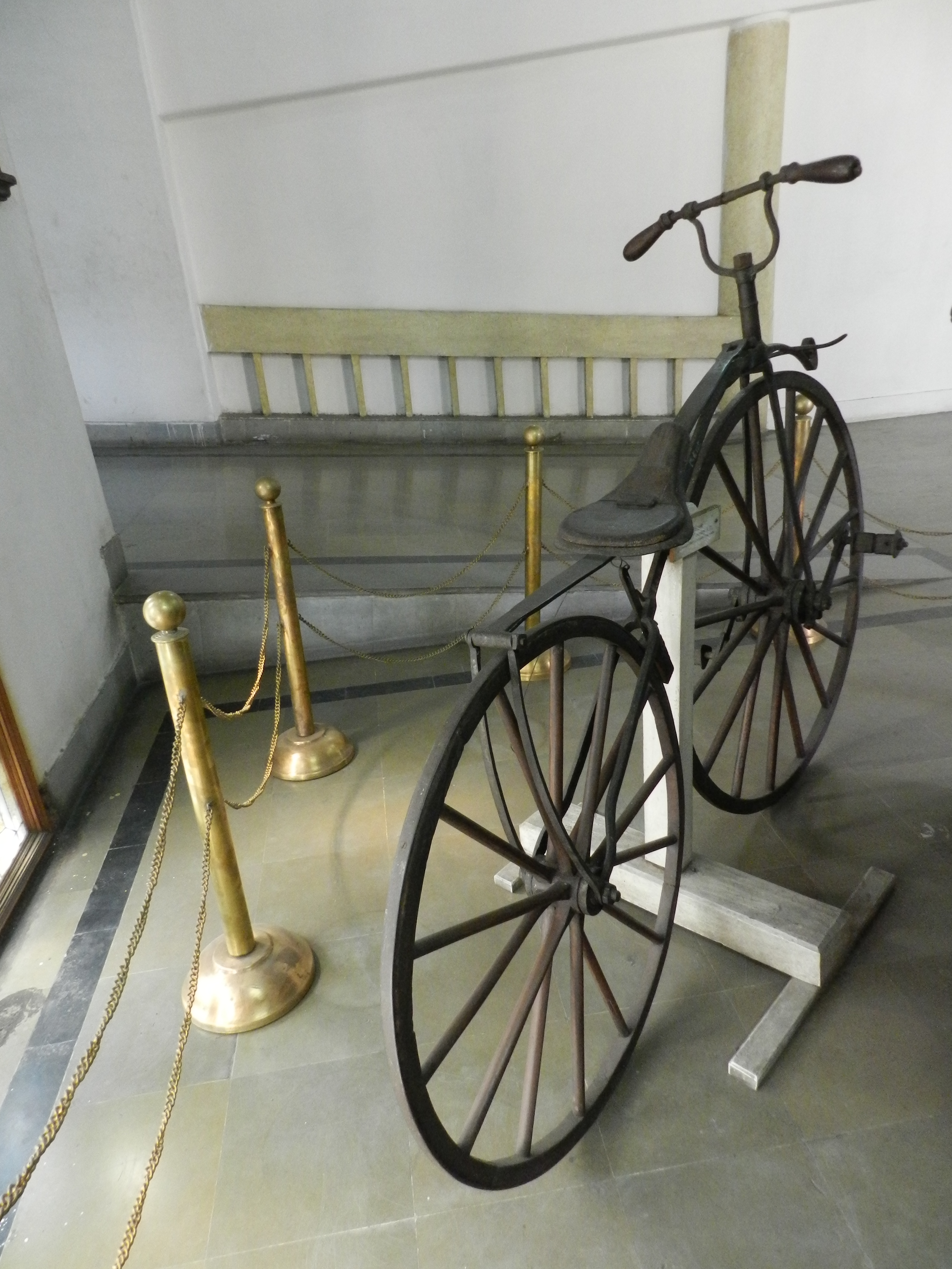 Early 20th Century A.D Bicycle, received from V.J museum, Vijayawada